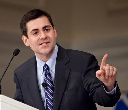 Dr. Moore preaching in chapel at SBTS.